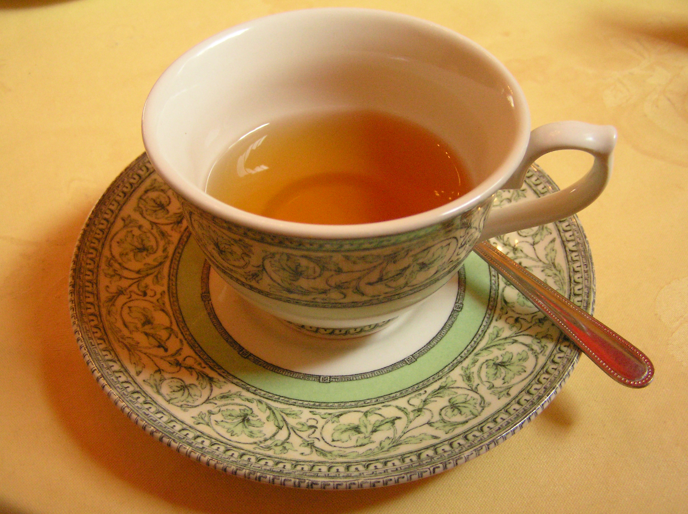 After we were done at the castle, we stopped at a cute little tea shop for tea, scones, and soup.